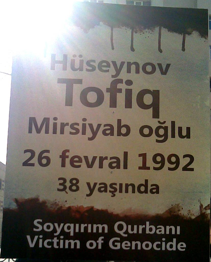 Khojaly 20